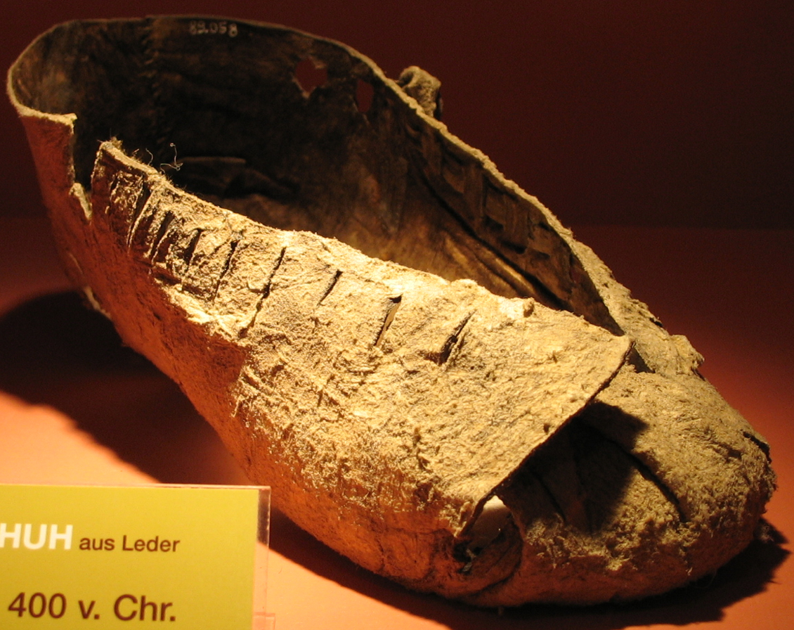 Leather shoes from the Hallstatt culture, 800-400 BC. Museum Hallstatt, Austria